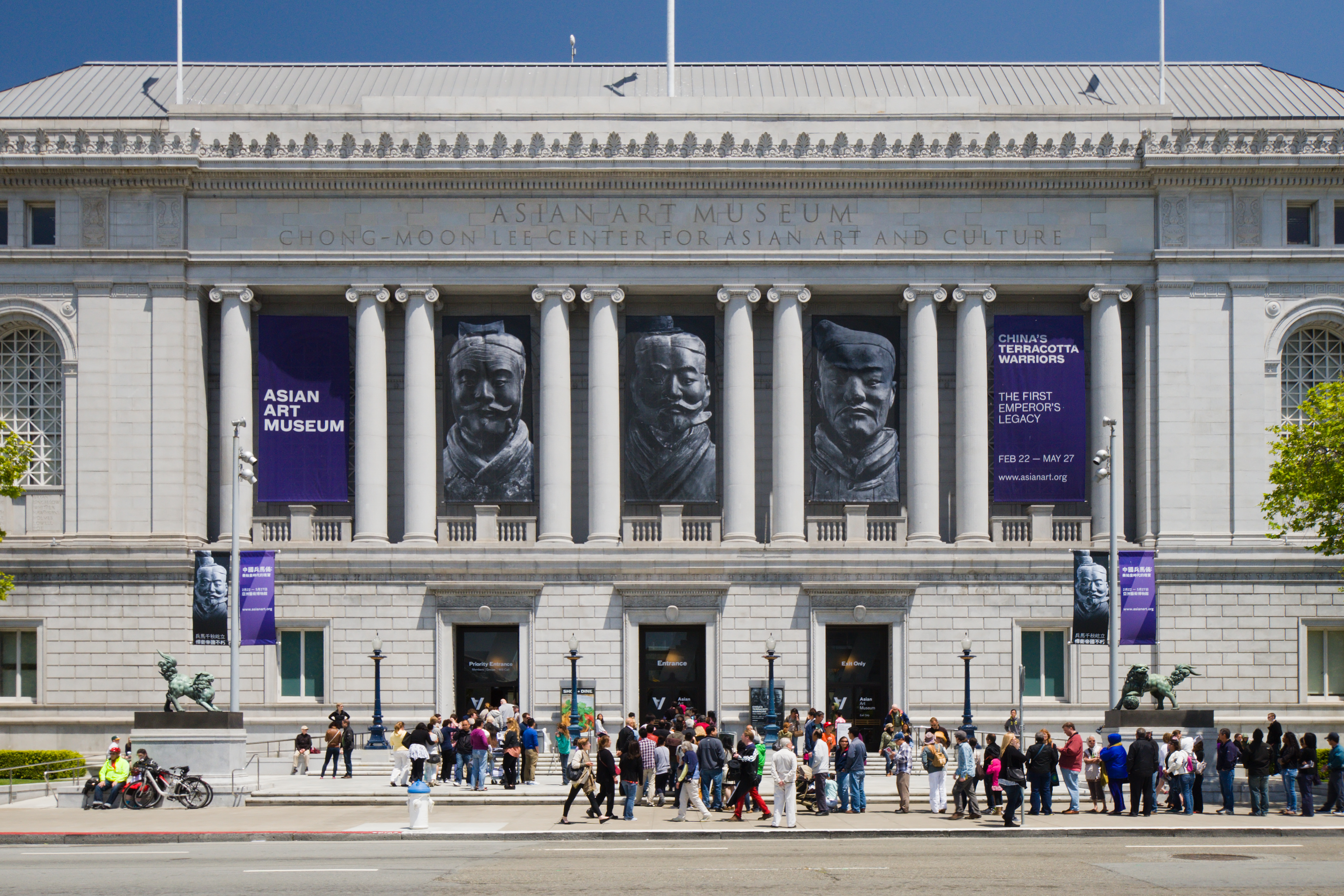 China's Terracotta Warriors exhibition in Asian Art Museum of San Francisco, 2013